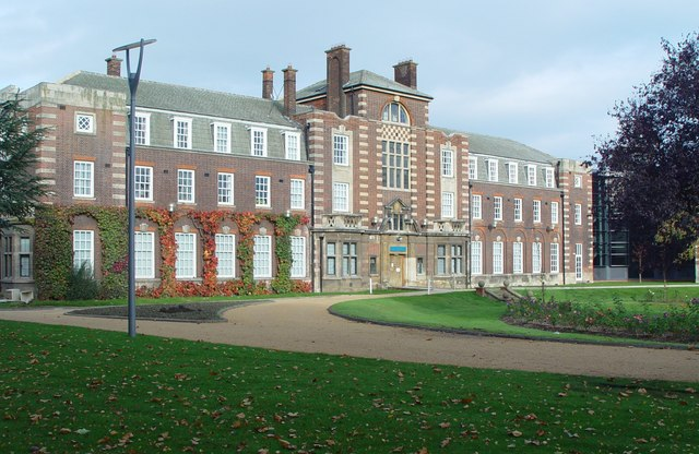 The University of Hull - Esk Building Part of the new medical facility.